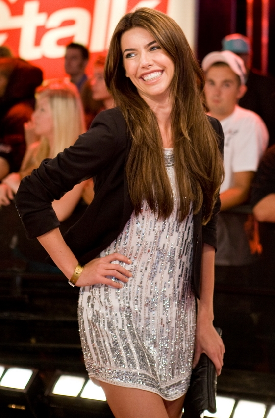 Jaqueline Mac Innes Wood at the eTalk Festival Party, during the Toronto International Film Festival.